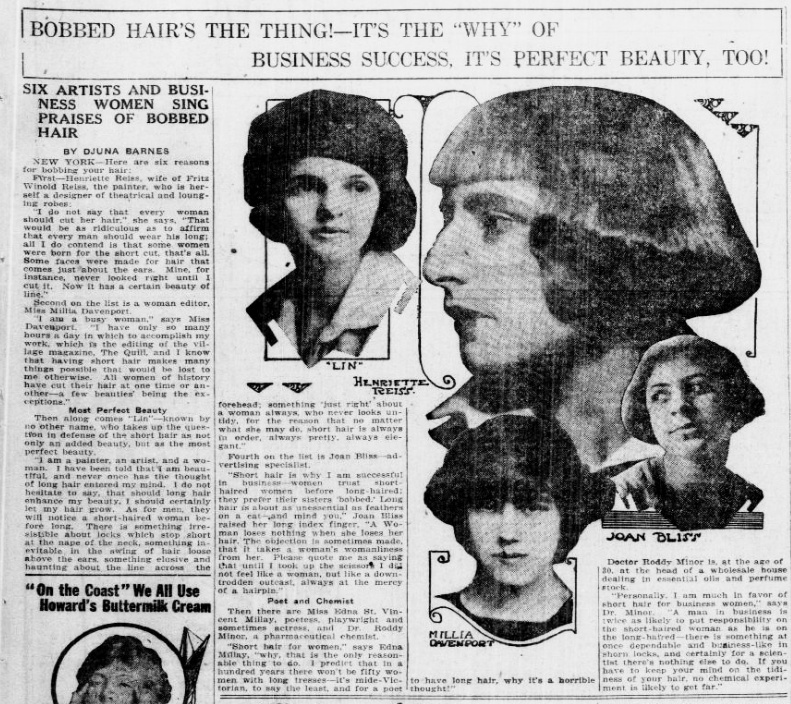 Newspaper article proclaiming "Bobbed Hair's the Thing! It's the "why" of business success, it's perfect beauty, too! Six artists and business women sing praises of bobbed hair."